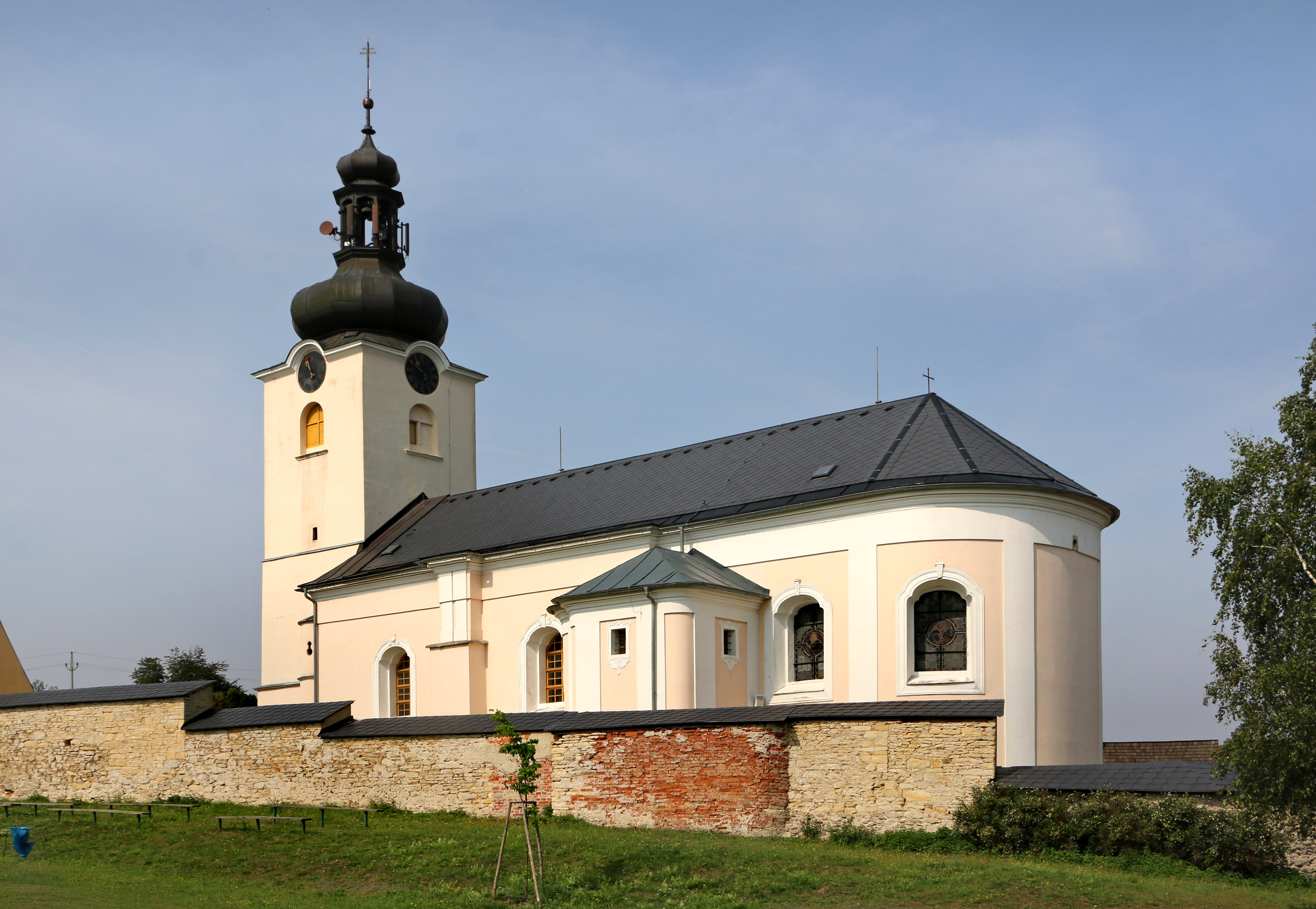 Church of Saint James the Greater and Saint Philomena at Koclířov, Czech Republic.